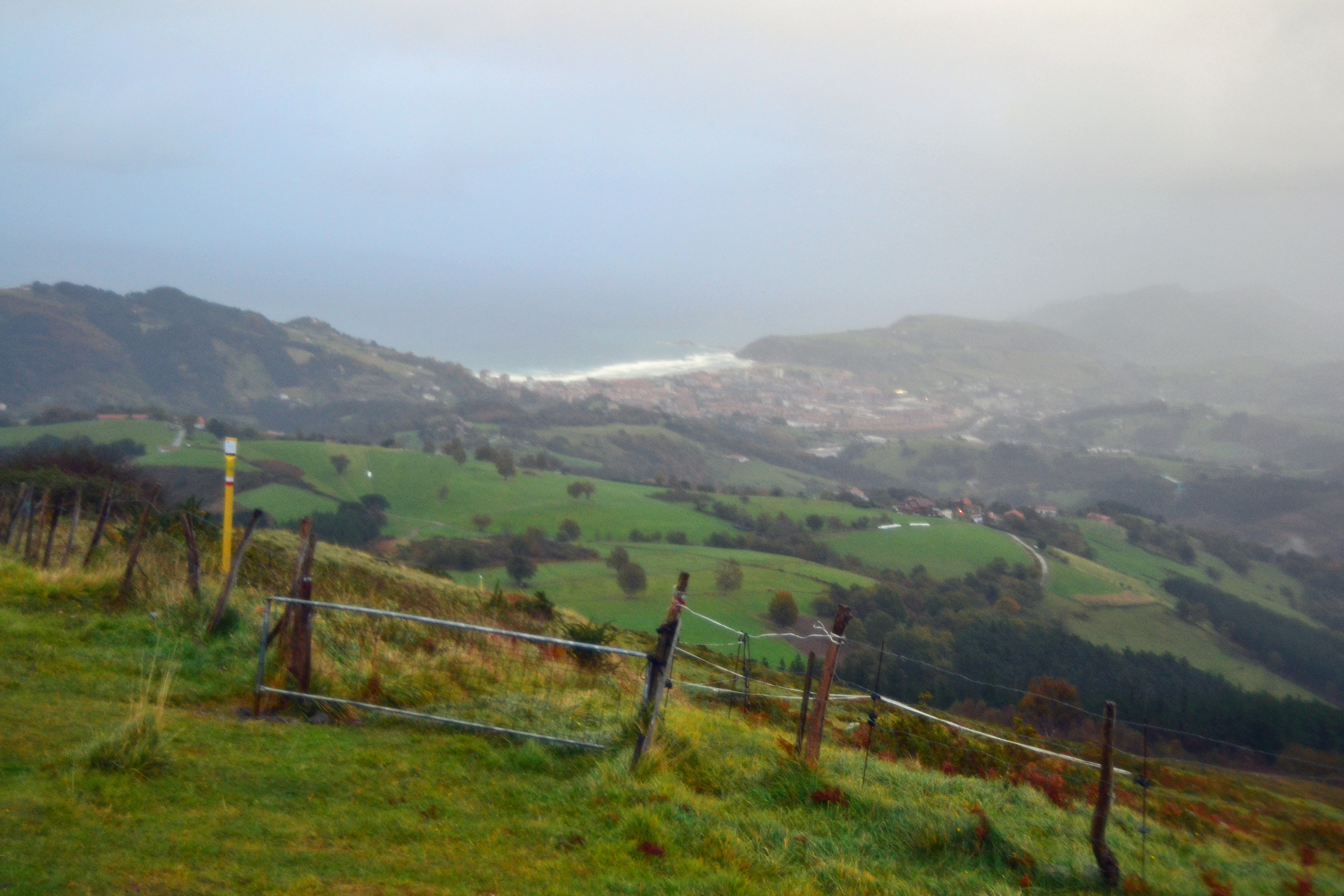 Zarautz from Indamendi mountain, Gipuzkoa, Basque Country